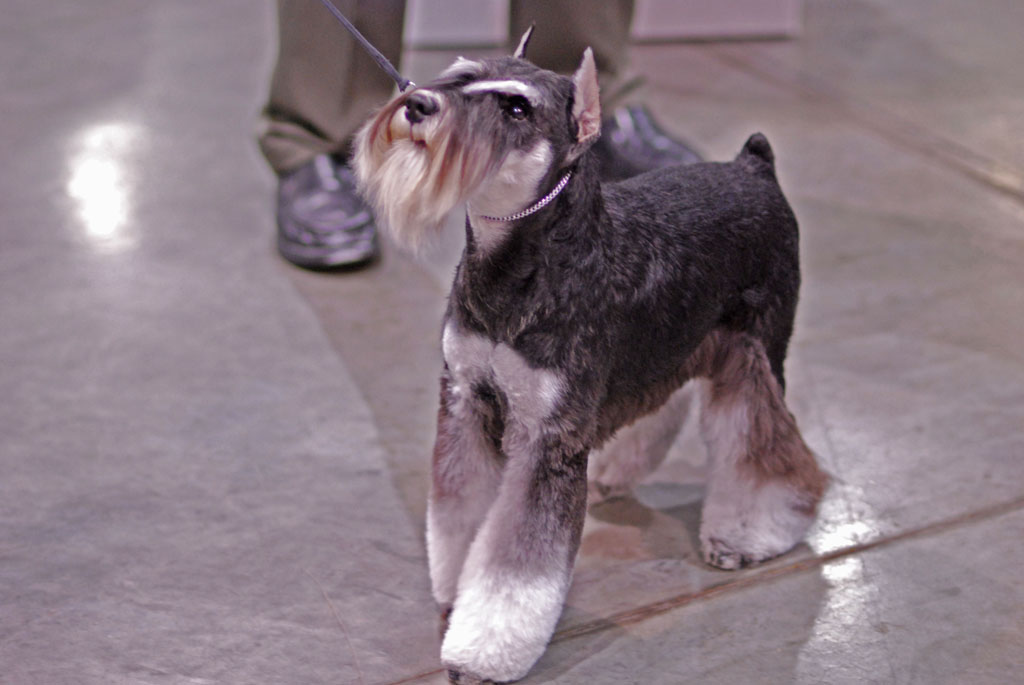 A salt-and-pepper Miniature Schnauzer at the Rose City Classic AKC Show 2007, Portland, Oregon, USA.